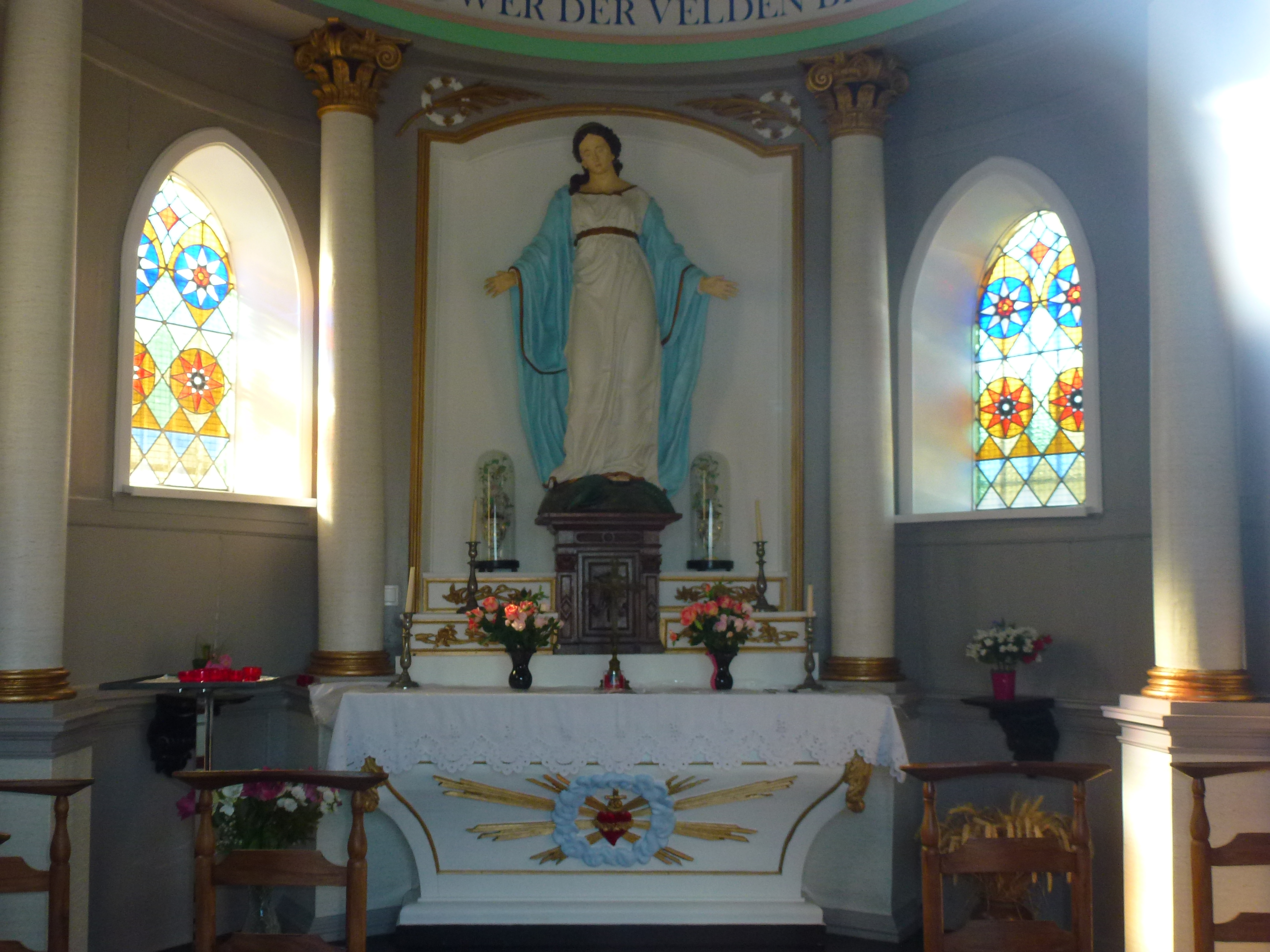 Sainte-Marie-Cappel (Nord, Fr) chapelle N. D. des Champs intérieur